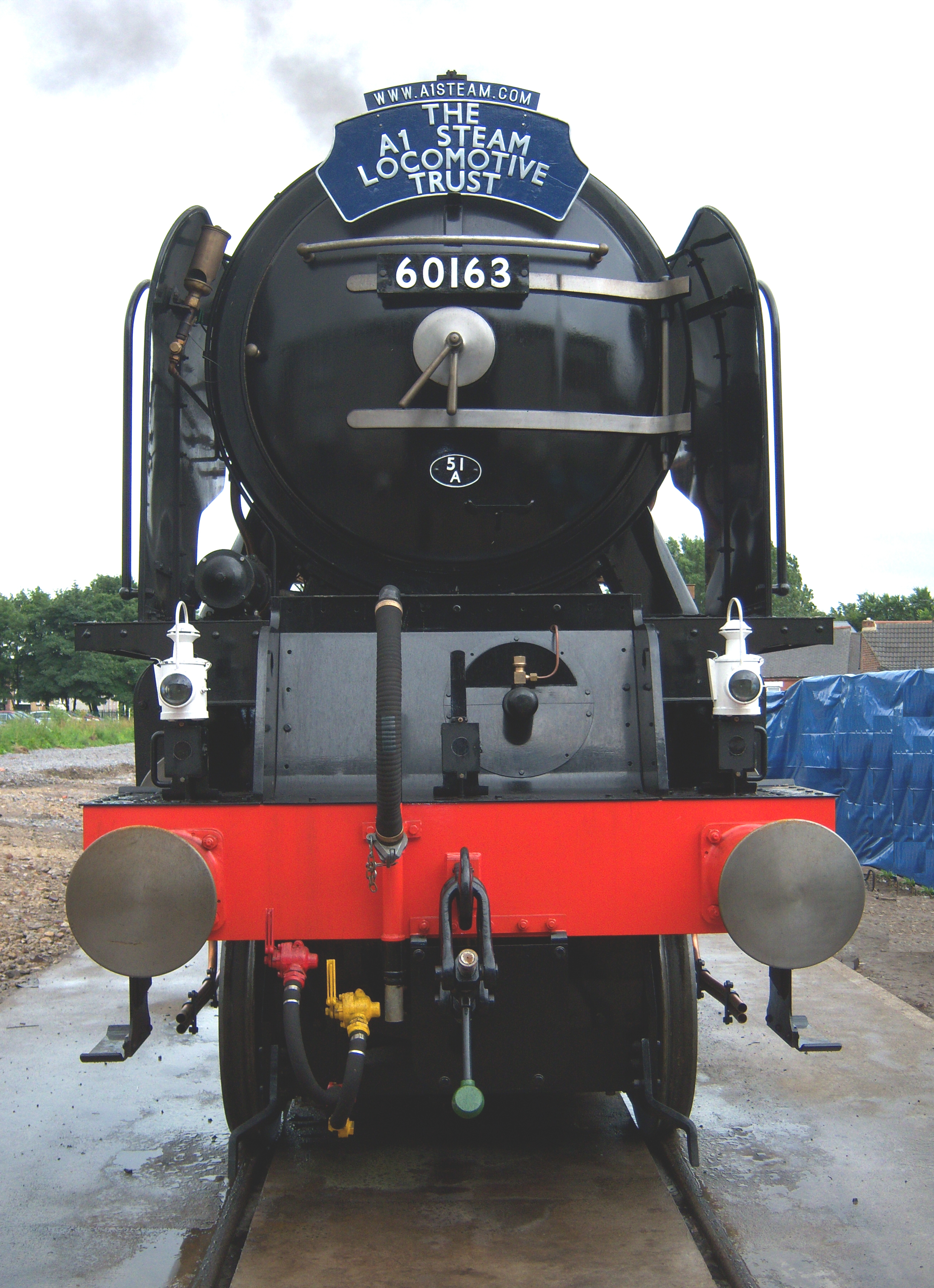 60163 Tornado front